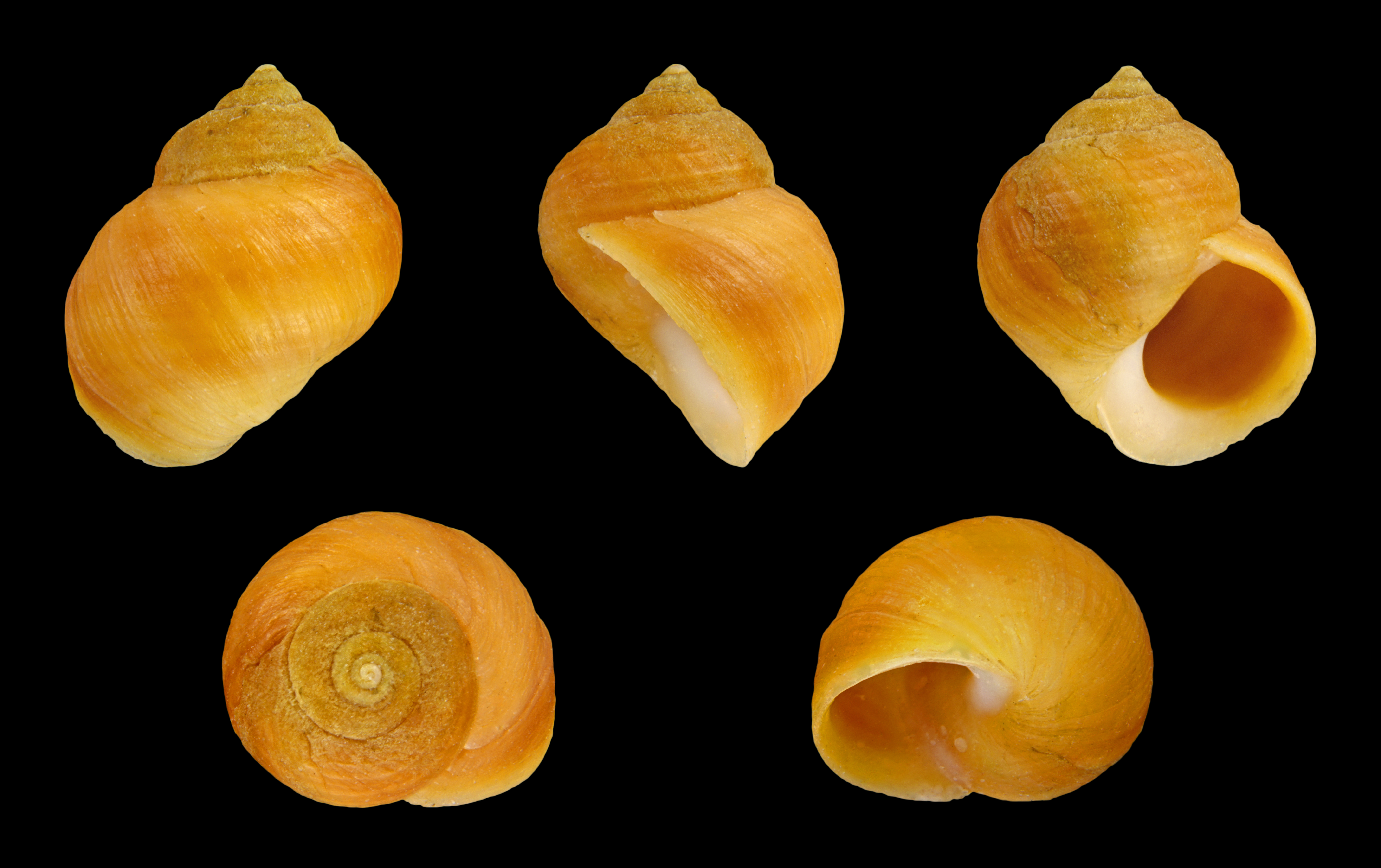 Rough Periwinkle, unicoloured form; Height 0.9 cm; Originating from Saint Helier, Jersey, Great Britain; Shell of own collection, therefore not geocoded. Dorsal, lateral (right side), ventral, back, and front view.